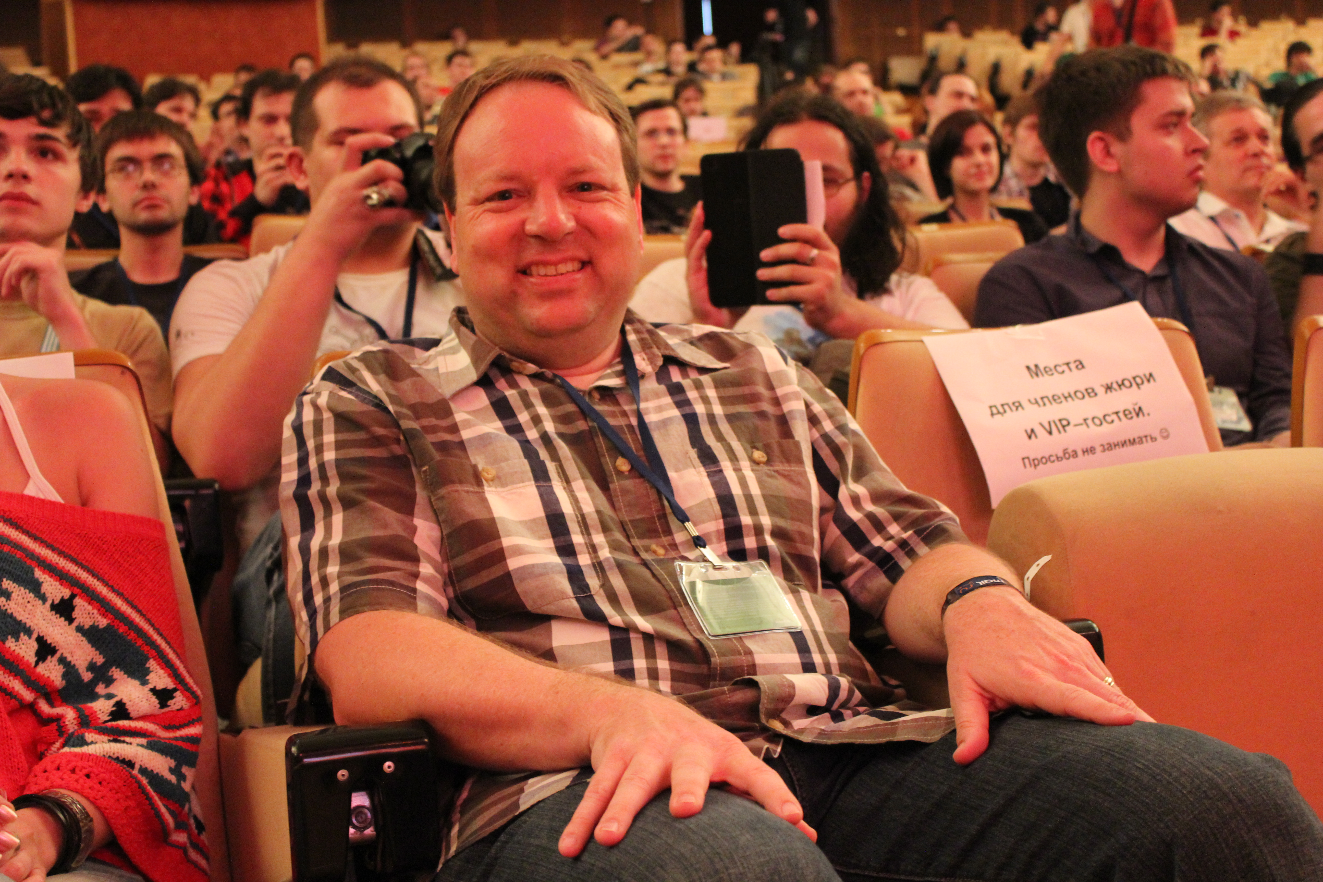 Feargus Urquhart at KRI 2013, Russia, Moscow